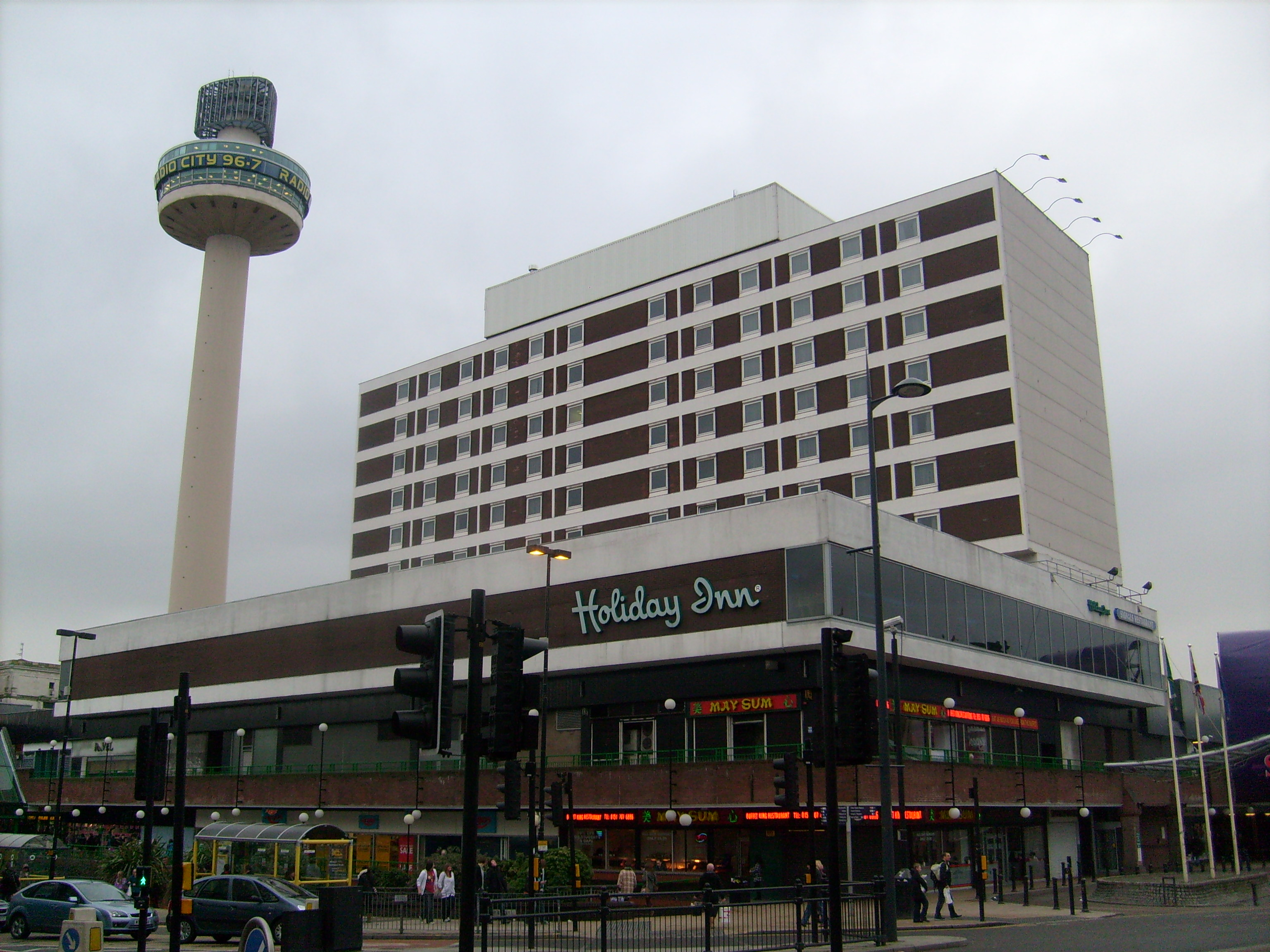 Holiday Inn, Liverpool